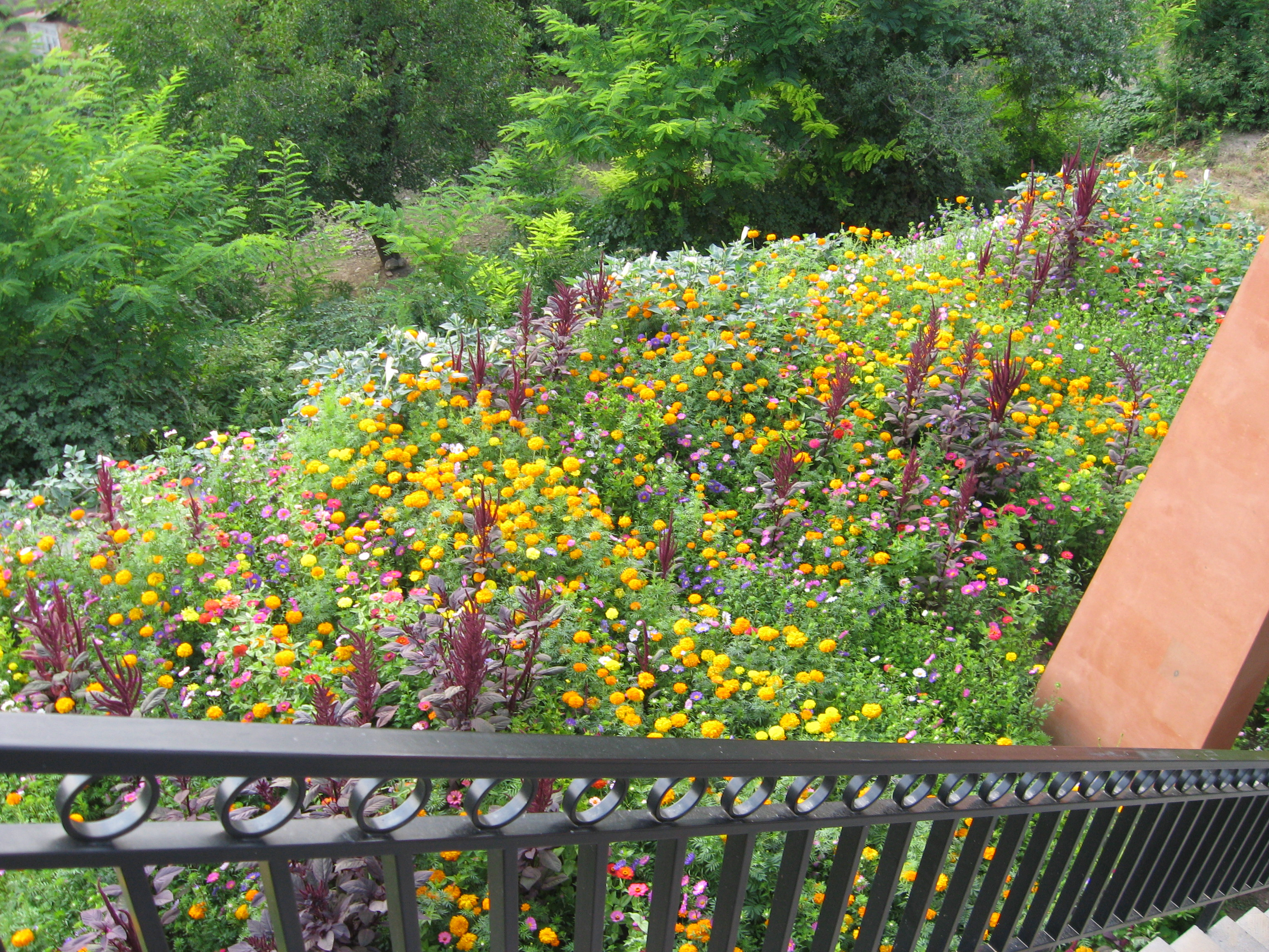 Մեծ Թաղեր գյուղում